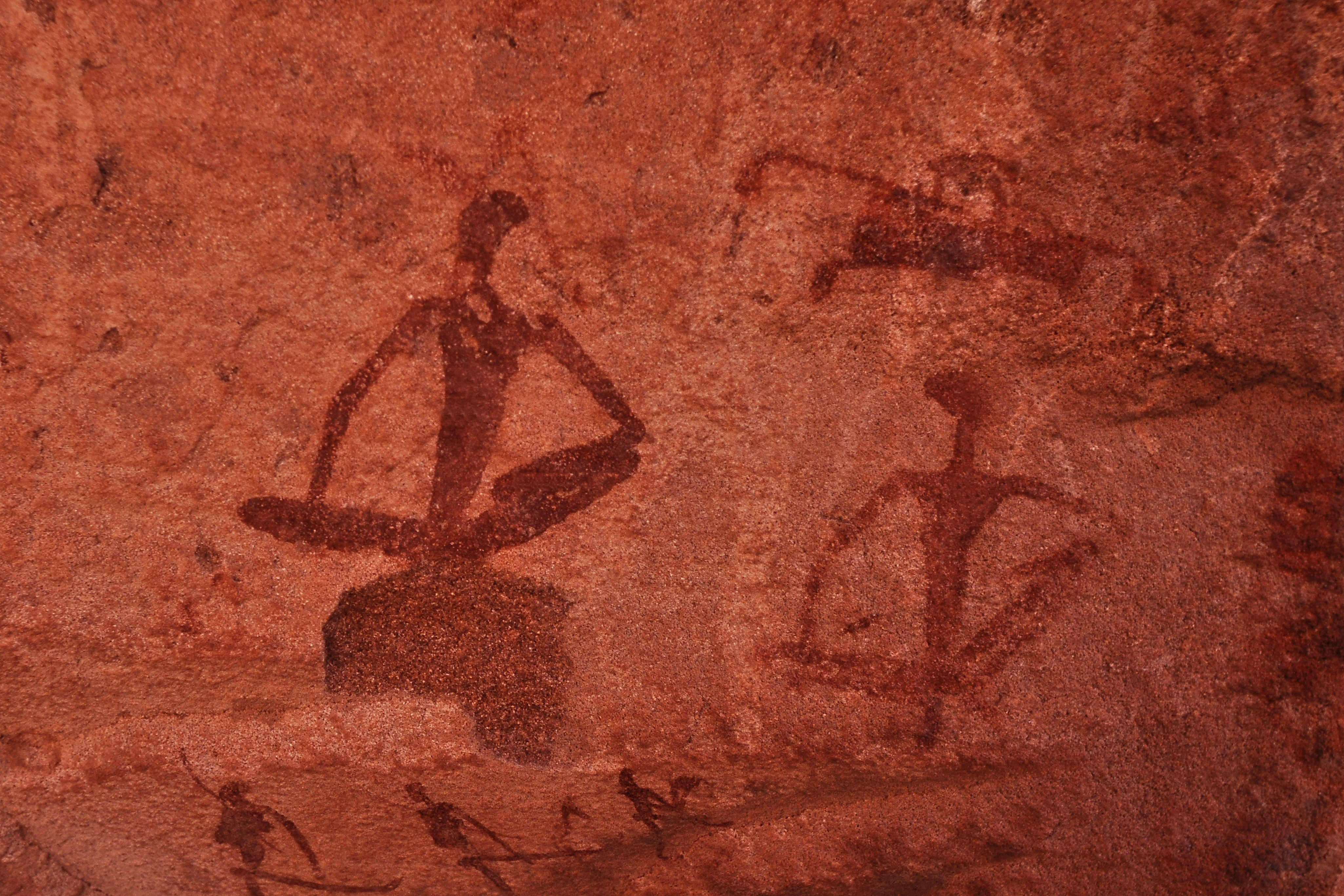 Rock painting in Twyfelfontein, Namibia